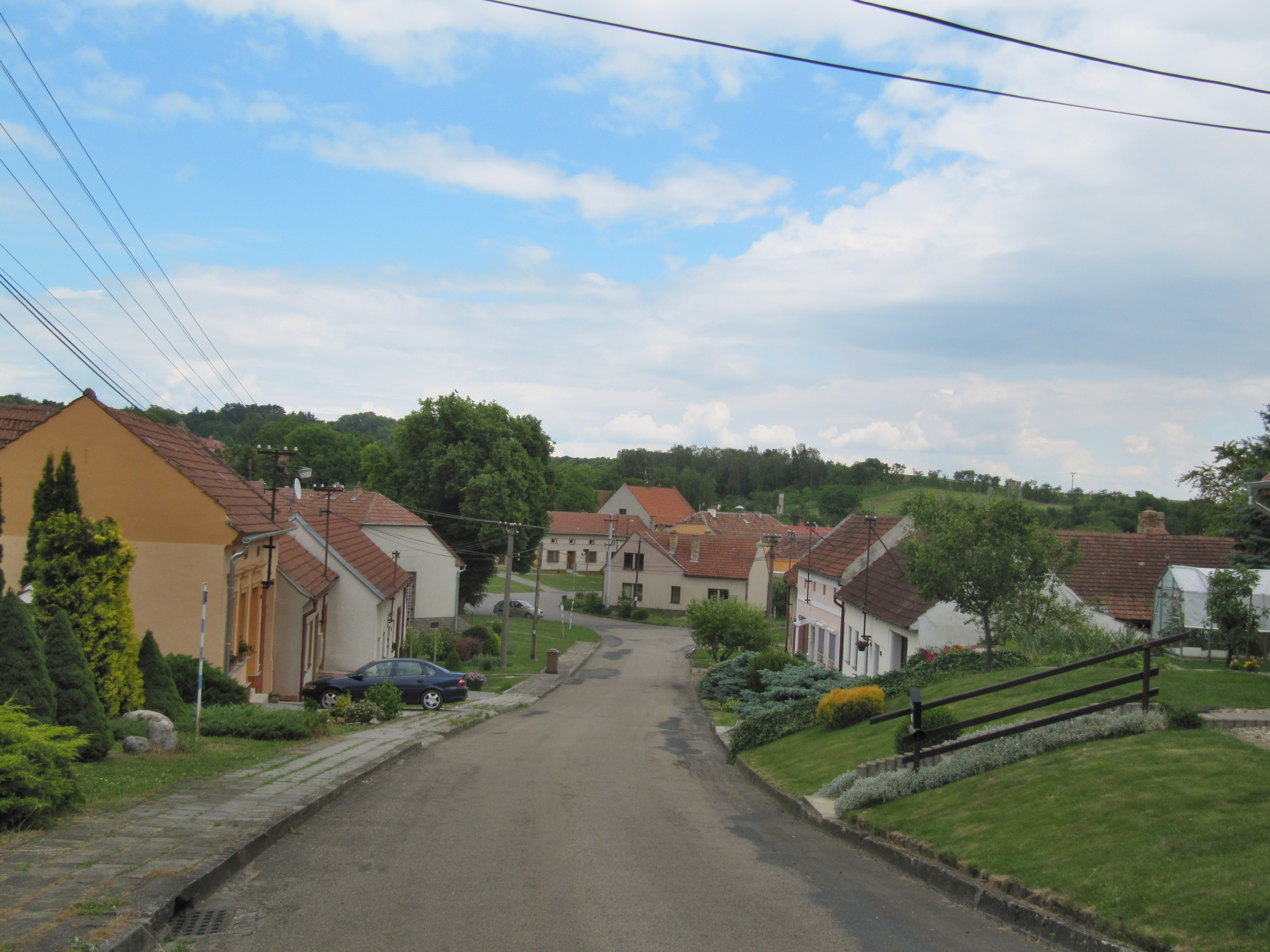 Dobročkovice, Vyškov District, Czech Republic.